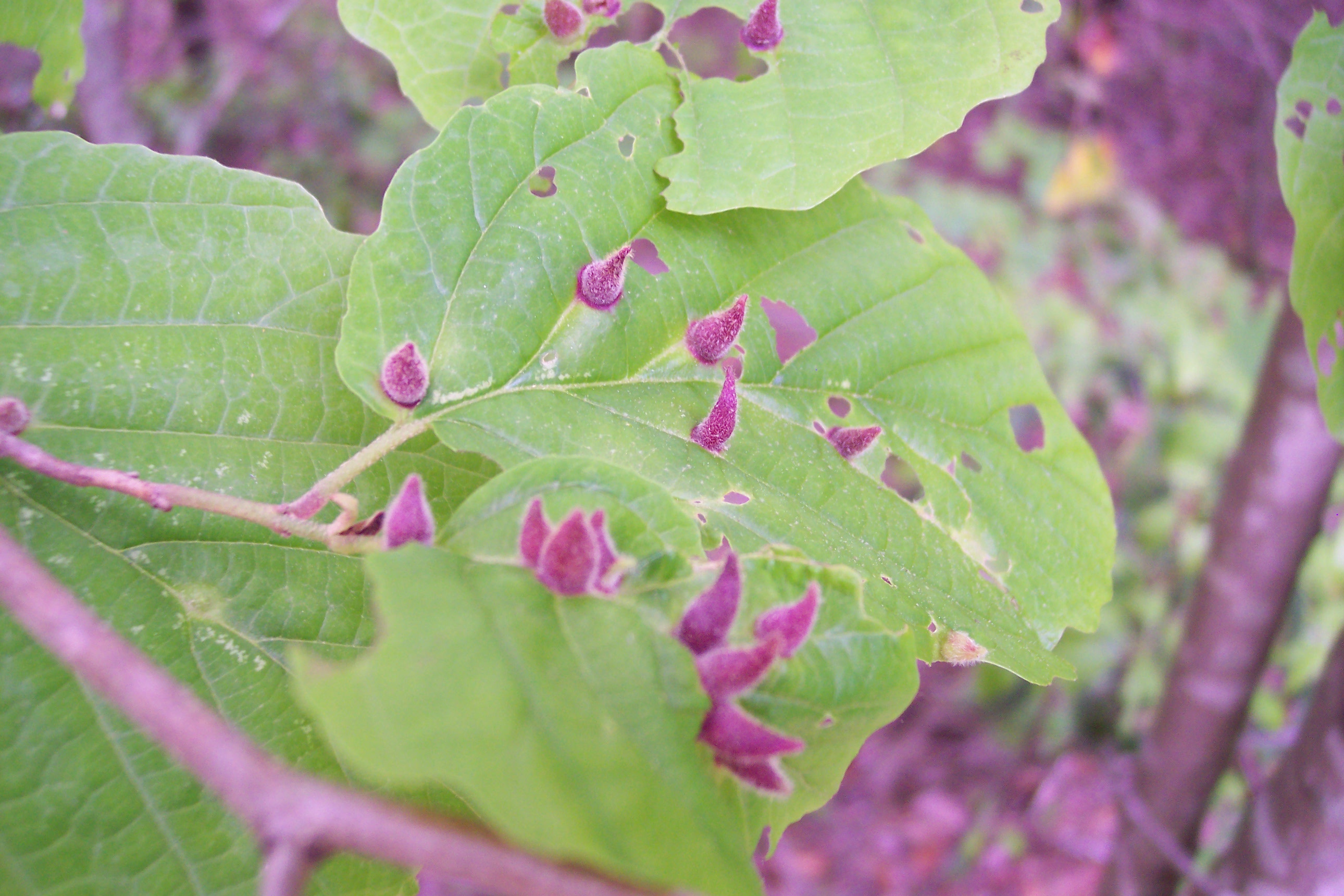 Witch Hazel Aphid Gall Cones produced by the aphid Hormaphis hamamelidis.